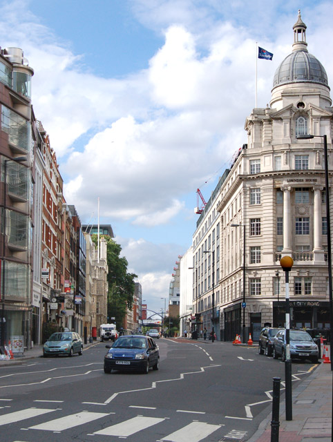 Looking north along City Road from Finsbury Square